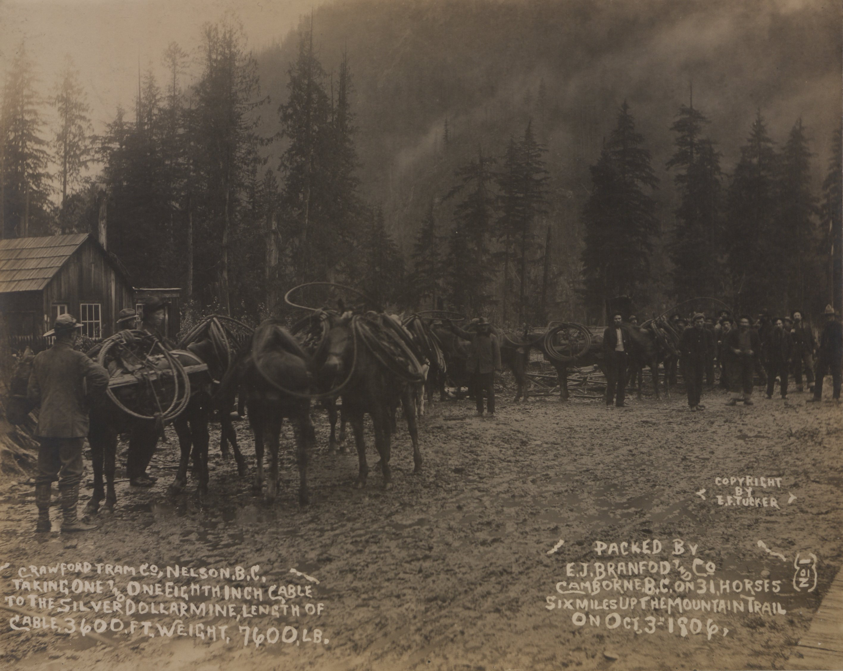 A pack train of horses. Photo A.